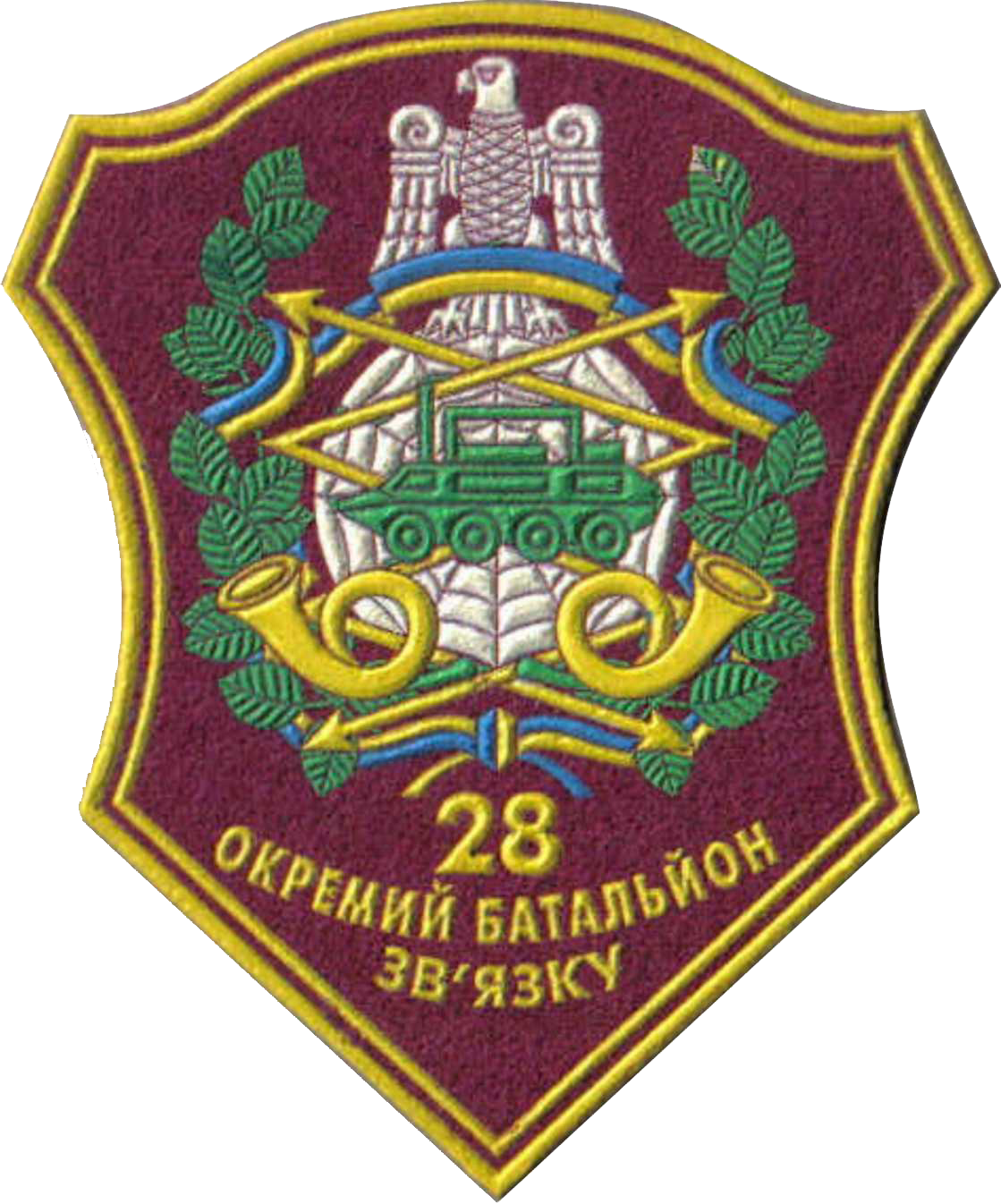 Sleeve patch for the 15th Signal Battalion 6th Mechanized Division